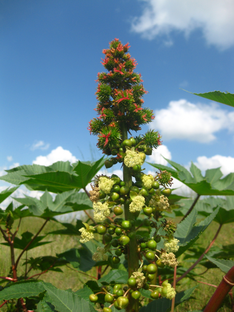 Inflorescence of Ricinus communis (wild castor-oil plant) with female flowers (red) separated from male flowers (white). Chimoio, Mozambique.